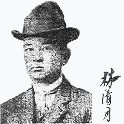 Formosan doctor Lim Chheng-goat (林清月; 1883~1960).